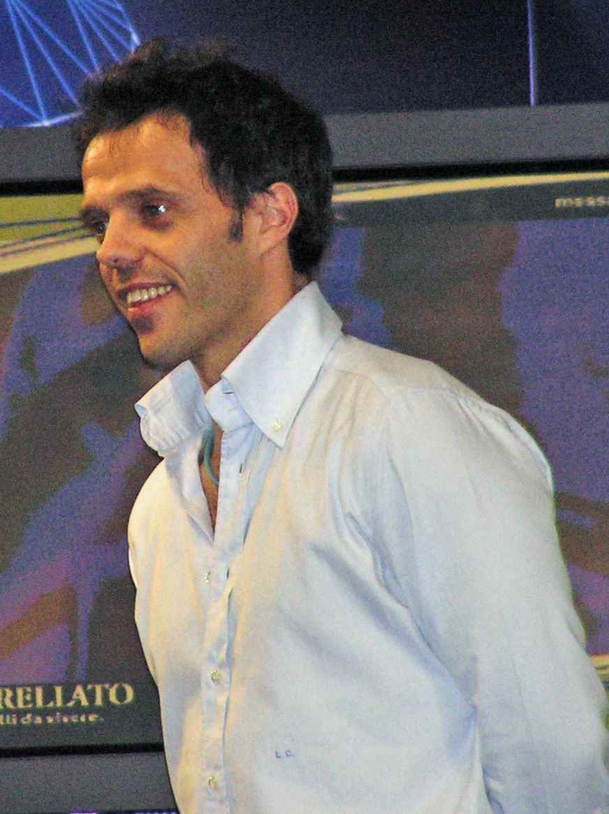 Loris Capirossi at EICMA 2007 - Milan (Italy)